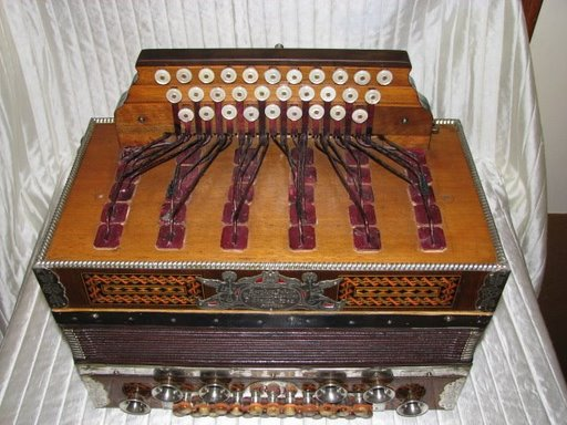 Stachl ditonic Box without top cover